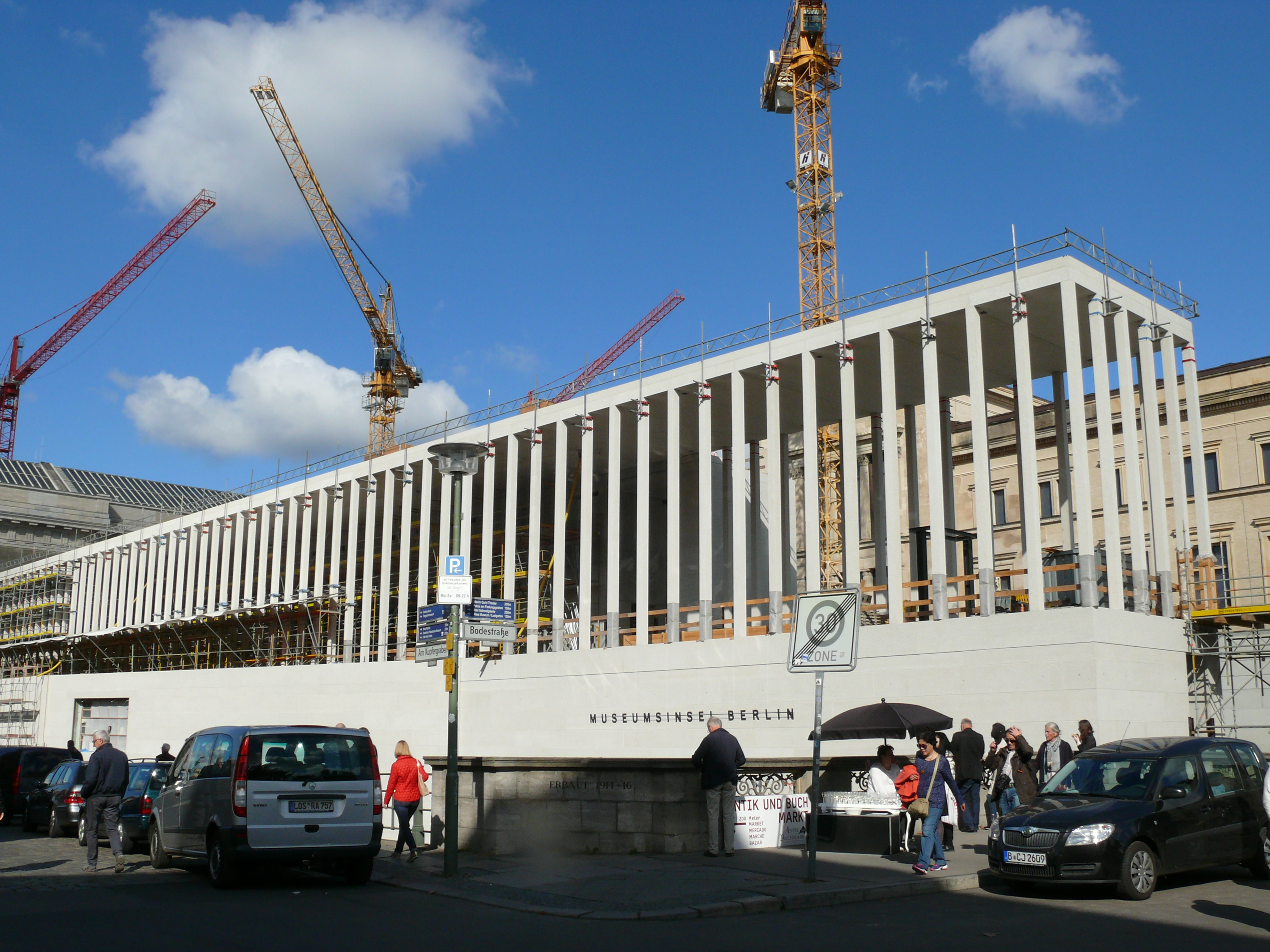 Mitte Neues Museum Oktober 2016